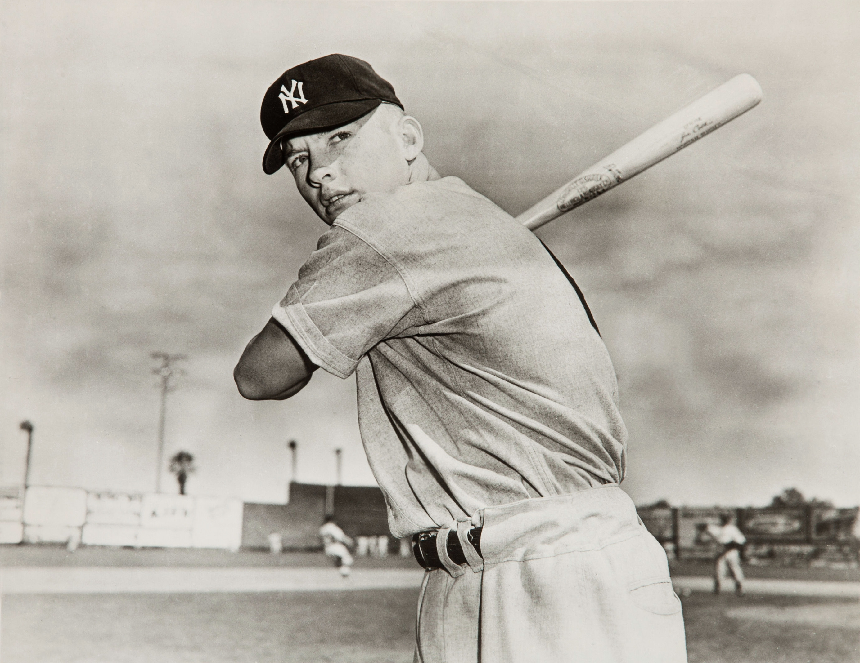 1951 Mickey Mantle Original News Photograph Used for 1951 Bowman Rookie Card